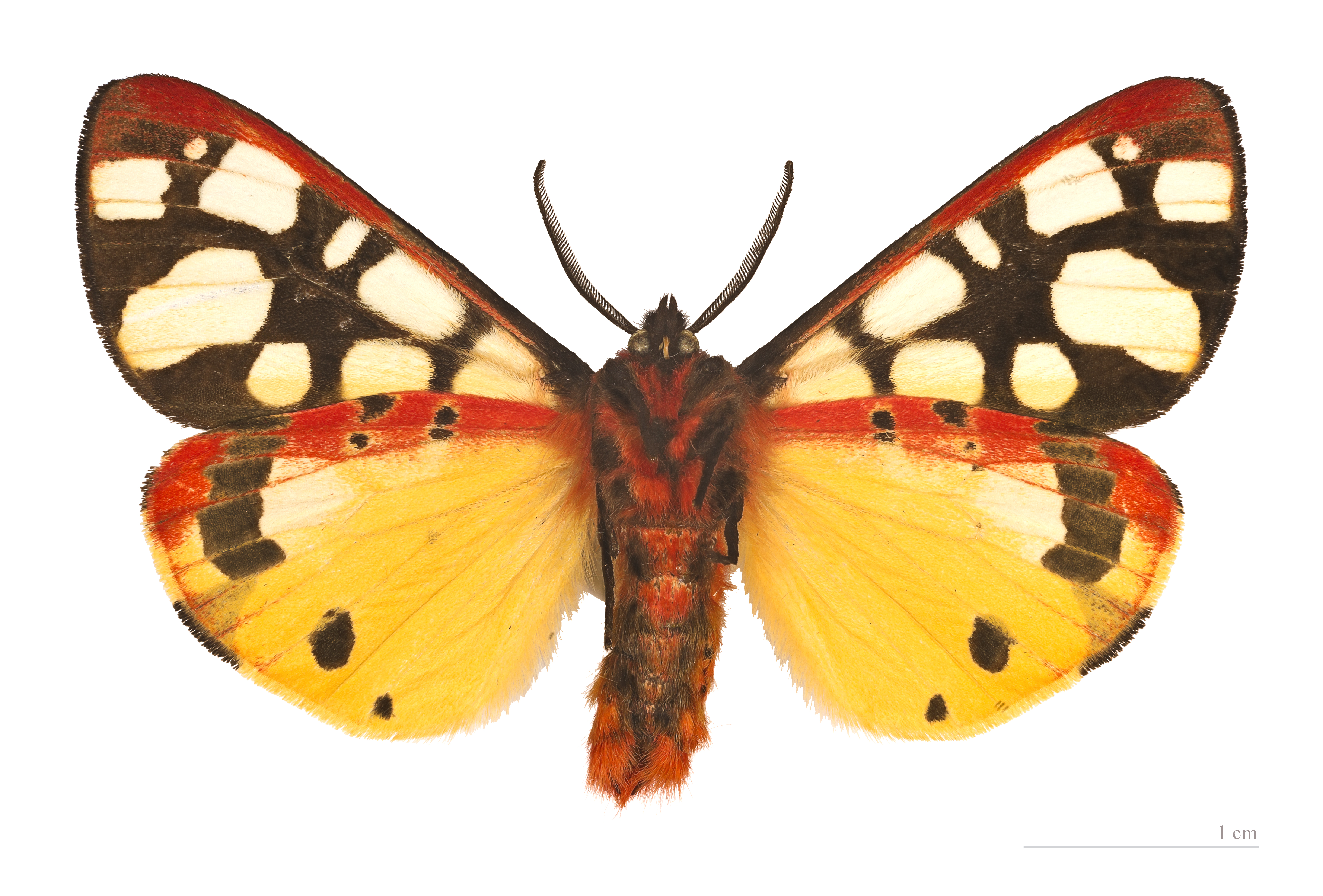 Cream-spot Tiger ♂ - △ Ventral side Locality : Galan, Hautes-Pyrénées, France